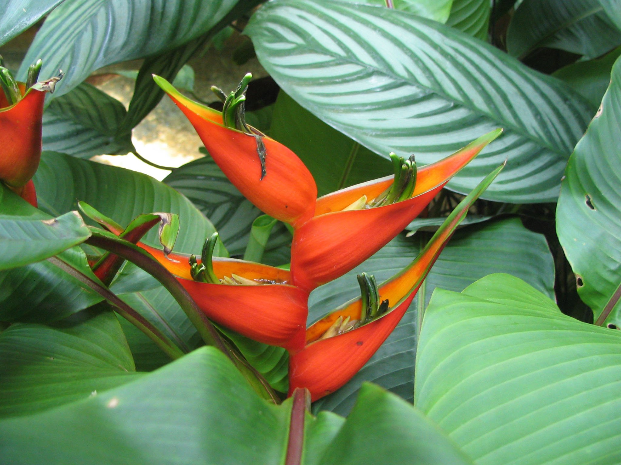 Species Heliconia stricta Genus Heliconia Familia Heliconiaceae Description Inflorescence and Flower Photo taken at United States Botanic Garden - location credit must be retained.